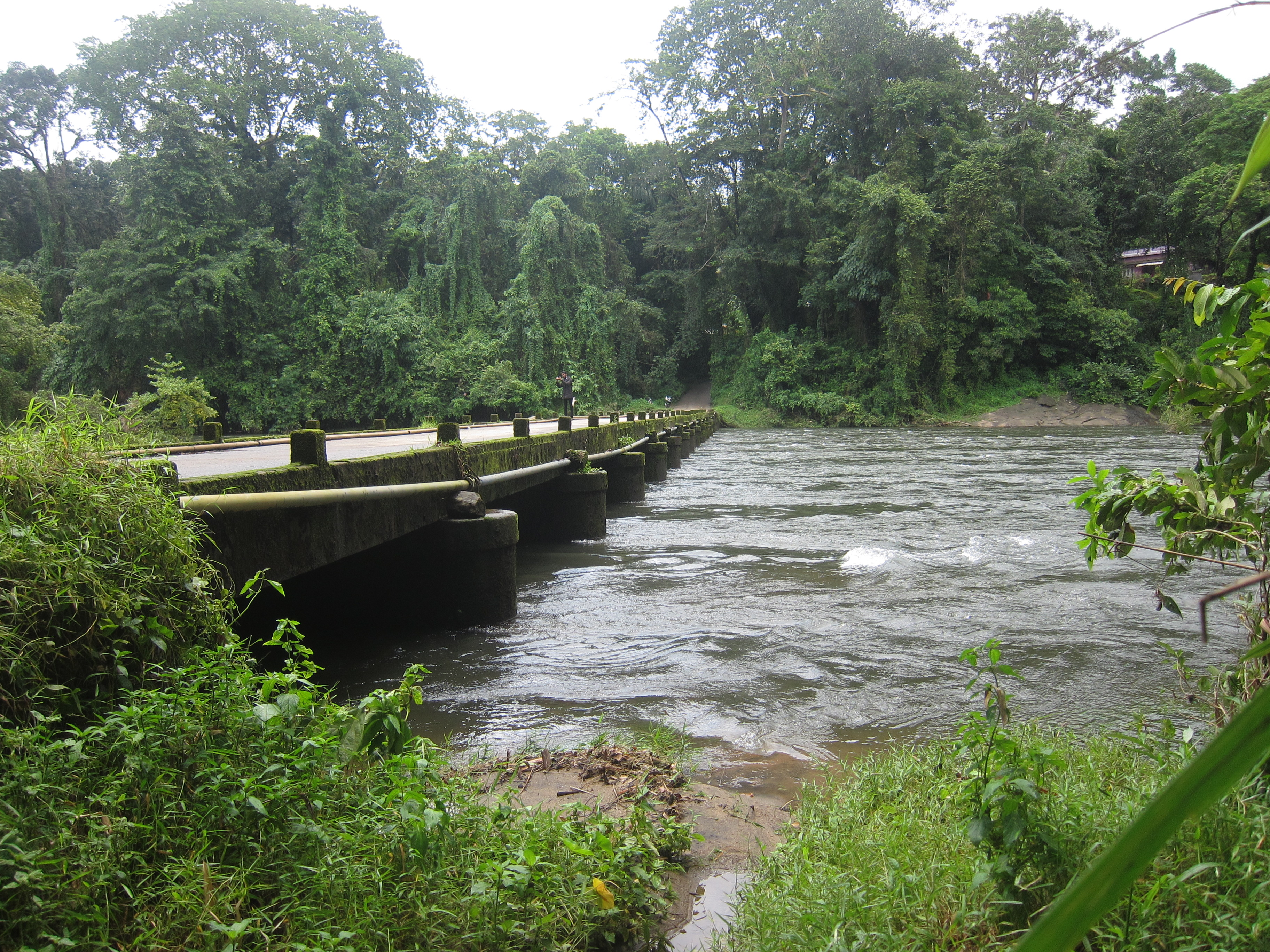 Pooyamkutty - പൂയംകുട്ടി Pooyamkutty Bridge - പൂയംകുട്ടി ചപ്പാത്ത് എറണാകുളം ജില്ലയിലെ കുട്ടമ്പുഴ ഗ്രാമപഞ്ചായത്തിലാണ് പൂയംകുട്ടി ചപ്പാത്ത് - മഴക്കാലത്ത് വെള്ളം പാലത്തിന് മുകളിലൂടേയും ഒഴുകും... പെരിയാറിന്റെ ഭാഗമാണിത്...